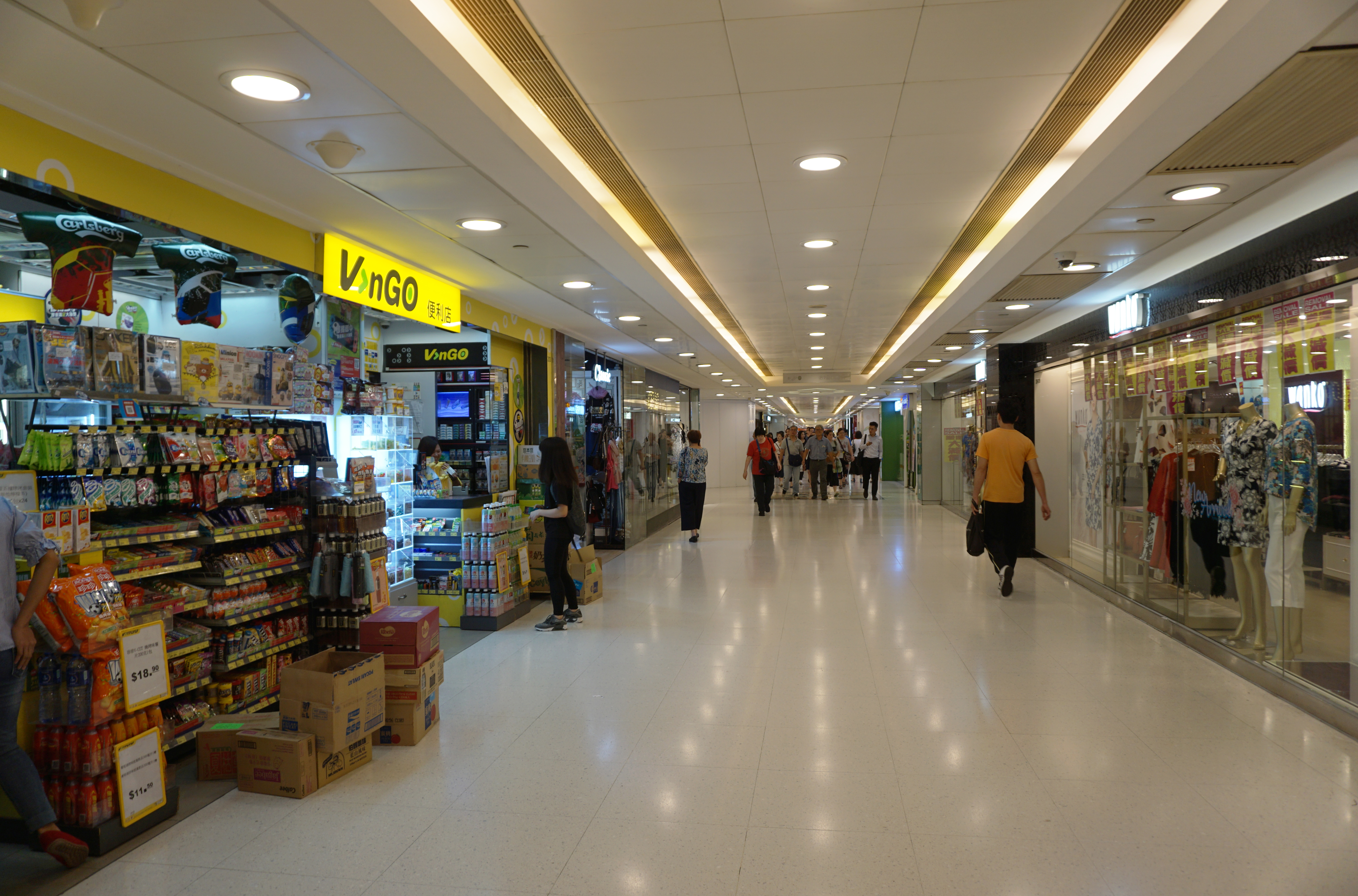 Tsuen Kam Centre in Tsuen Wan, Hong Kong.